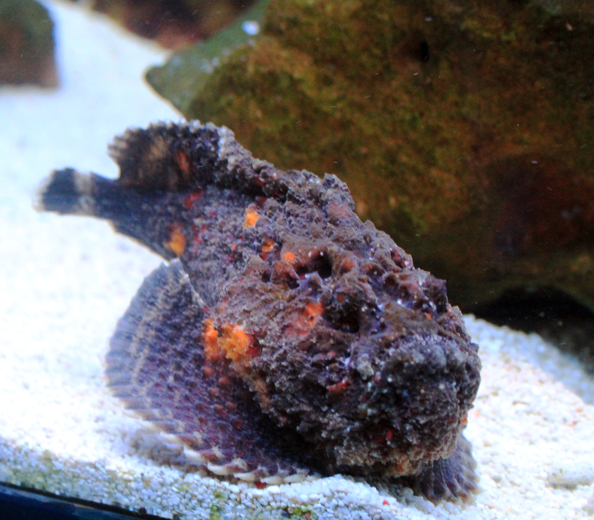 Fish Synanceia verrucosa, (Synanceia verrucosa) in Prague sea aquarium “Sea world”, Czech Republic